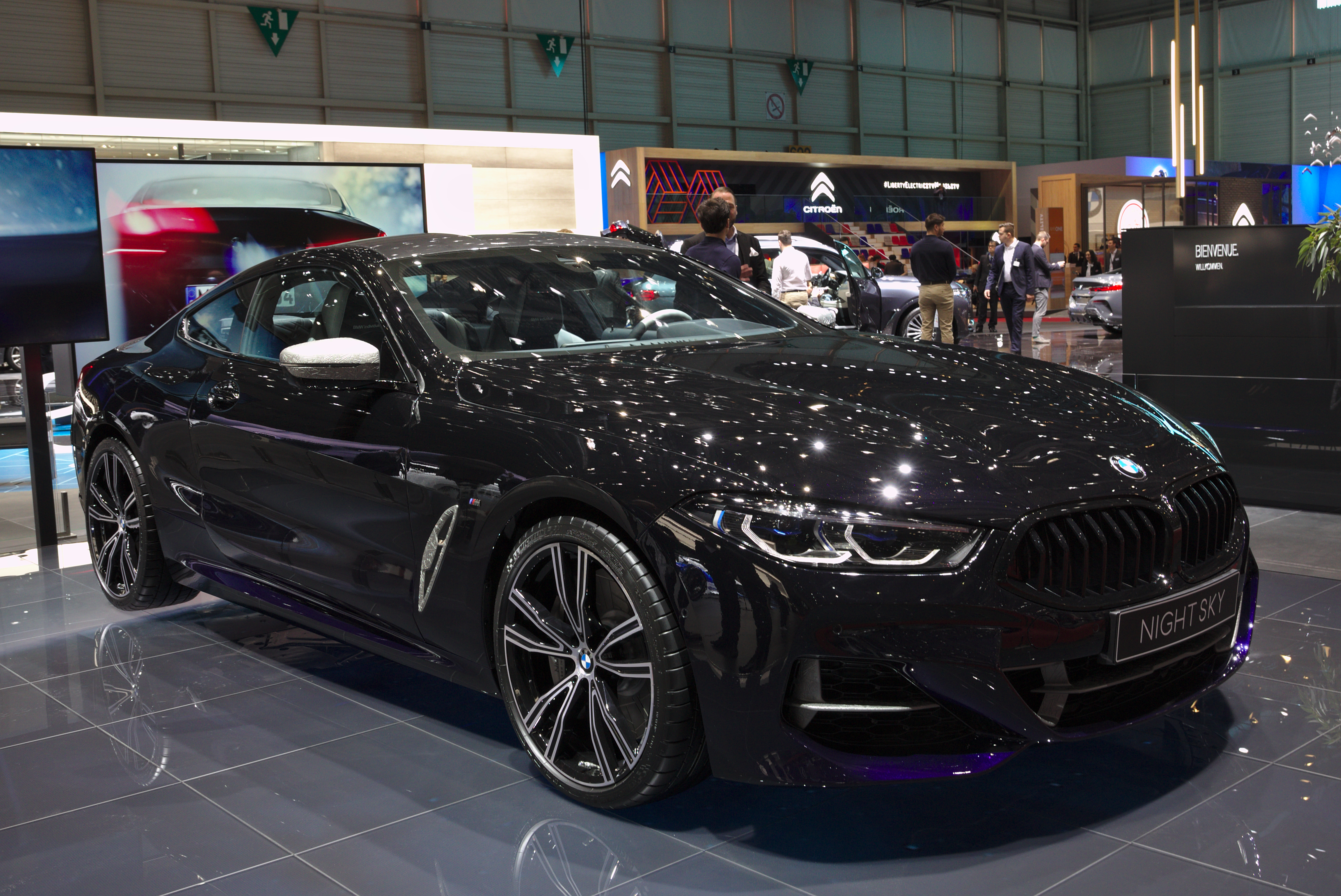 BMW 8er Coupe Night Sky at Geneva Motor Show 2019